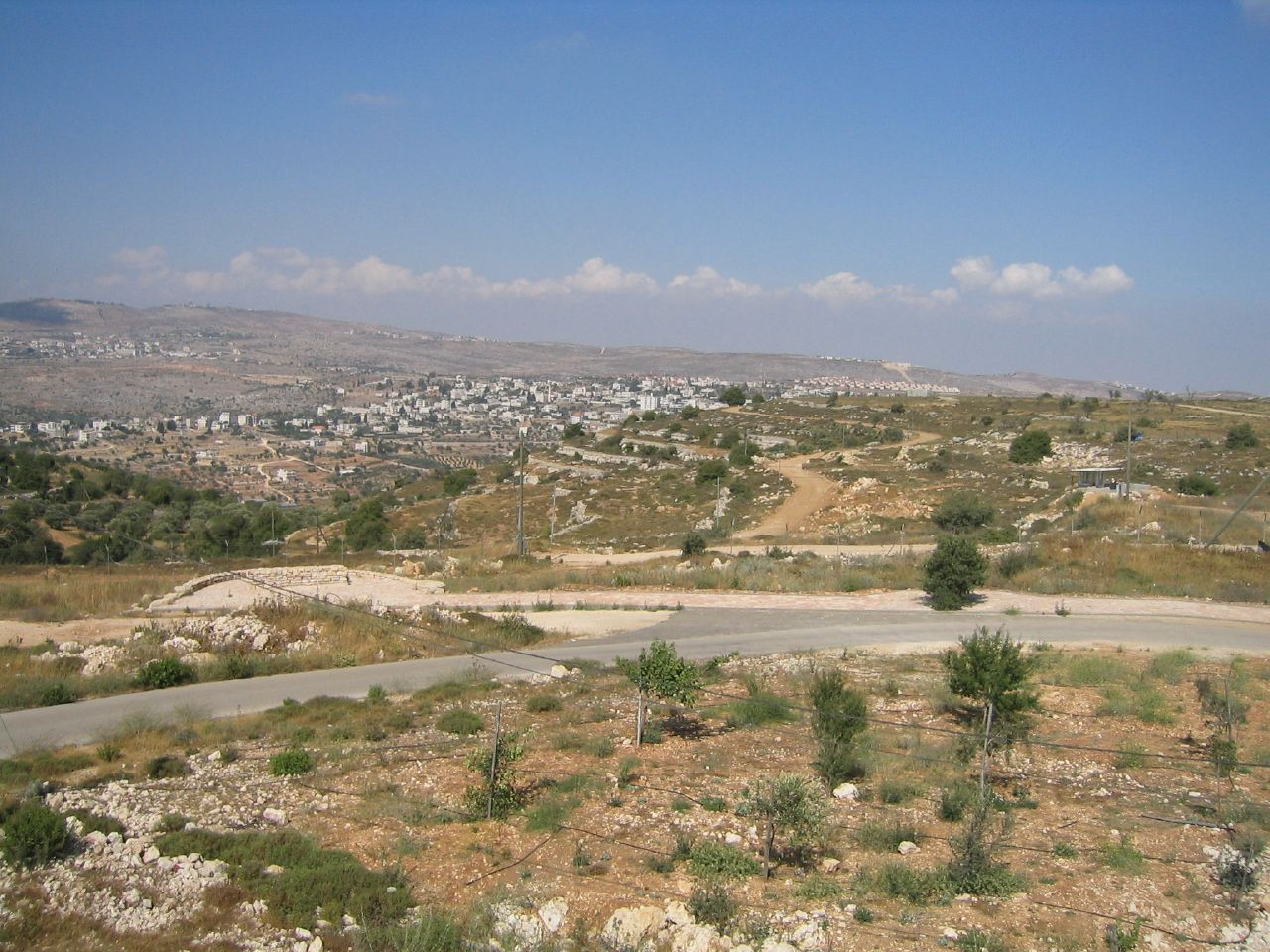 Panorama of Ein Yabrud (center) and Ofra (right, with red roofs) in the West Bank, taken from the Artis mountain above Beit El. On the left is Silwad